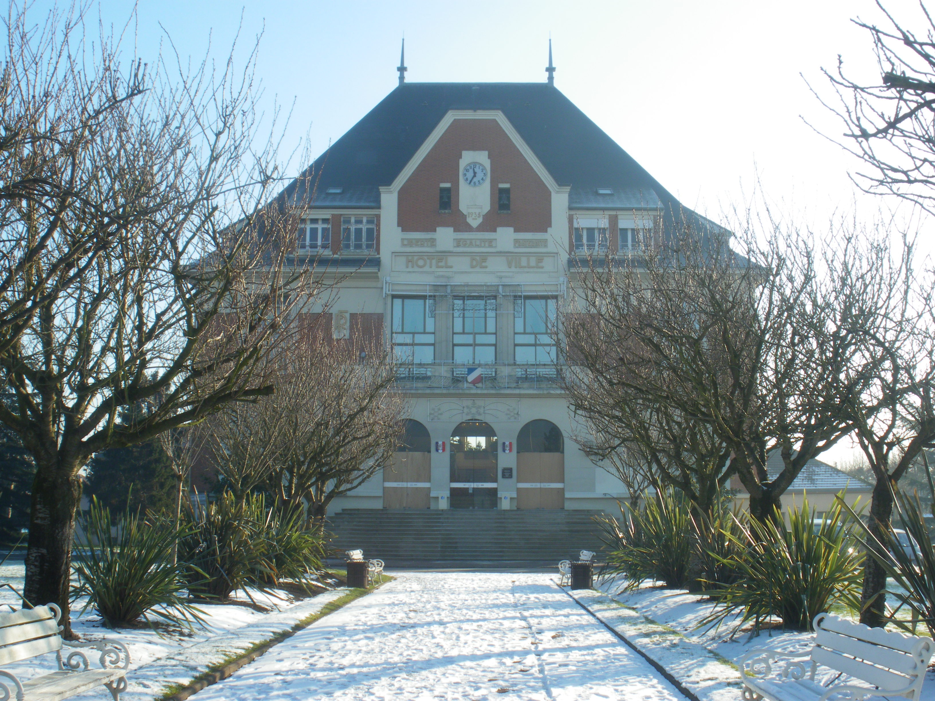 Towhn hall of Sainte-Geneviève-des-Bois, Essonne, France.